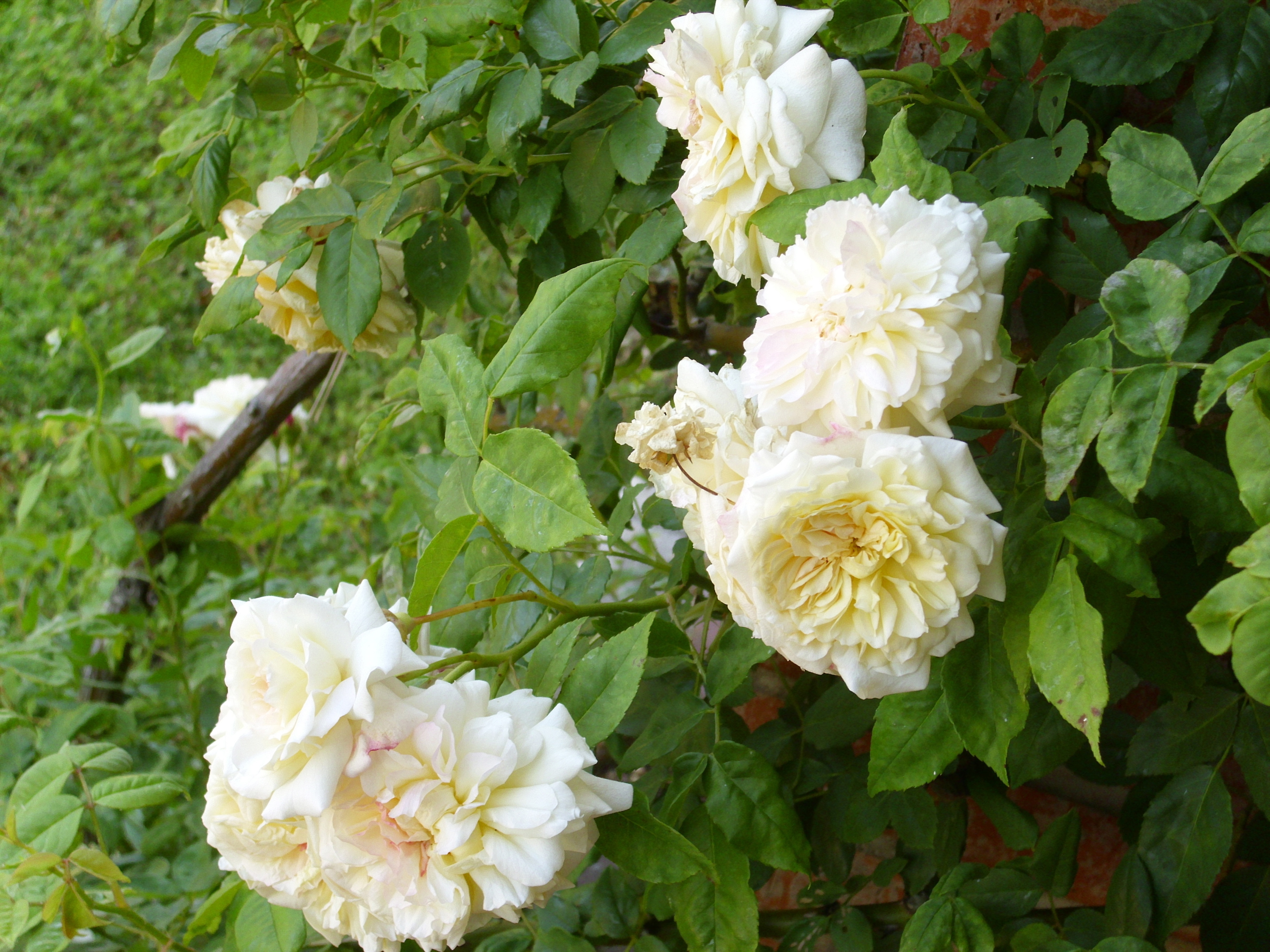 Rosa 'Cécile Brünner Cl.' Hosp. 1894, in the "Rosaleda del Parque del Oeste" in Madrid. Identified by sign.